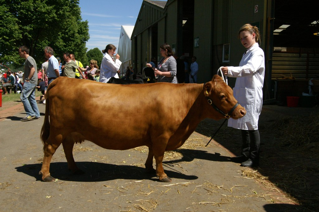 A Red Dexter cow at the Three Counties Show, Malvern, Worcestershire.